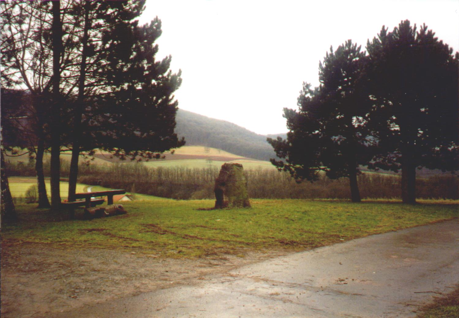 Memorial Stone in Arnshausen (a quarter of the German spa town of Bad Kissingen in Lower Franconia, Bavaria) remembering the land clearance project in Arnshausen in the 1960ies.